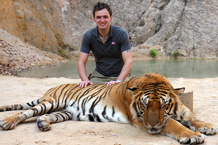 Tiger temple, where it is possible to take a photo with a tiger up close